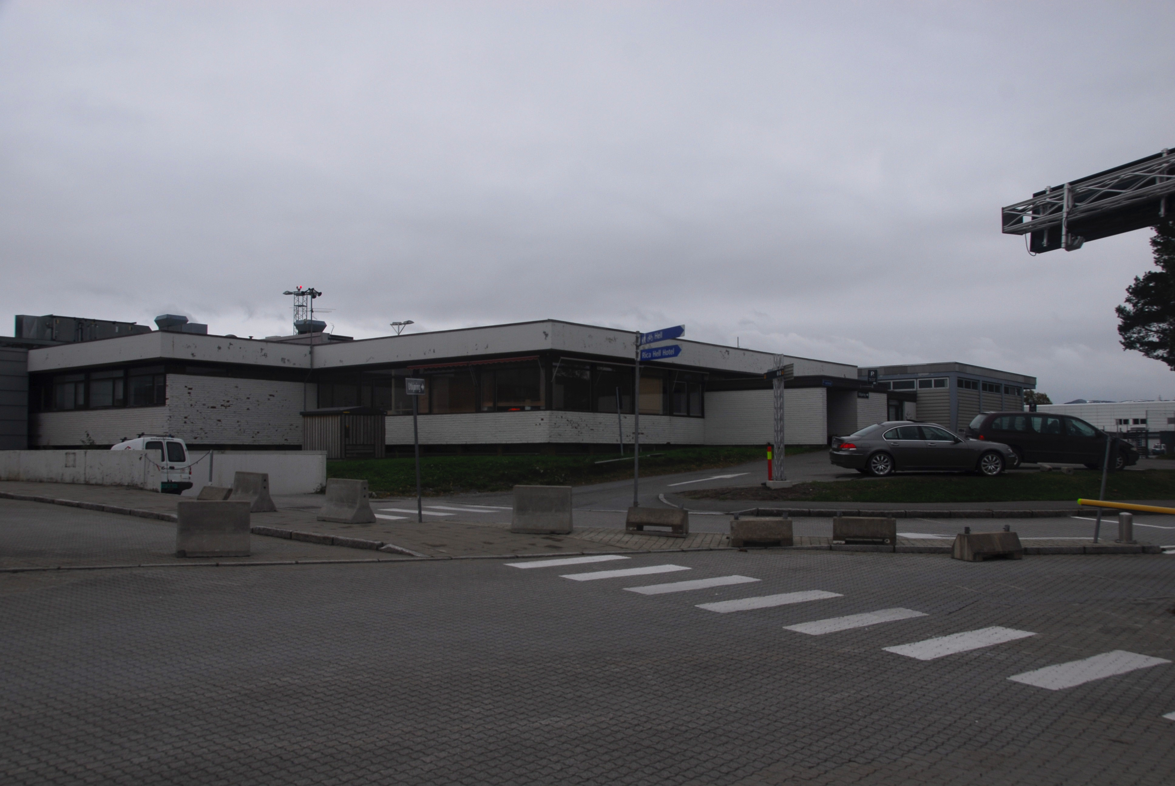 The terminal of Trondheim Airport, Værnes built in 1965, as depicted in 2009.